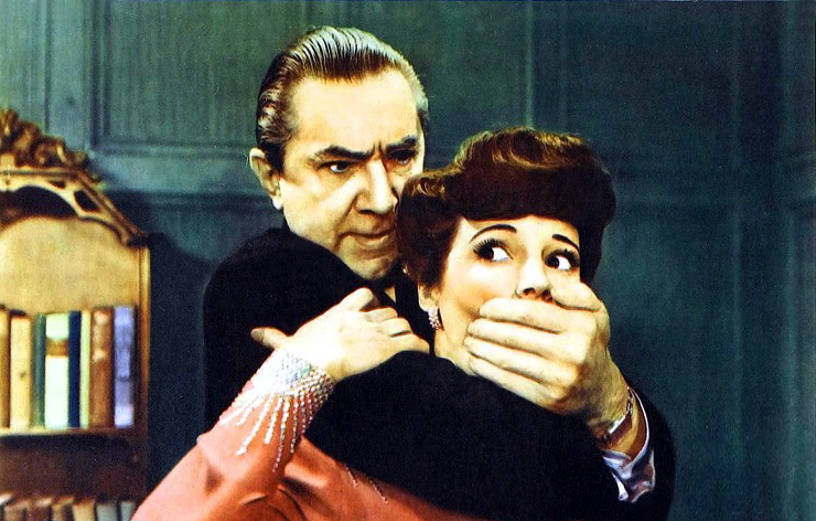 Cropped and edited lobby card for The Corpse Vanishes featuring Bela Lugosi. This image is assumed to be in the public domain, as no copyright notice is in evidence. The item has no copyright markings on it as can be seen in the links above and in the original uploaded copy. At bottom right is Litho in USA.